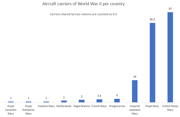 Carriers of ww2 by country